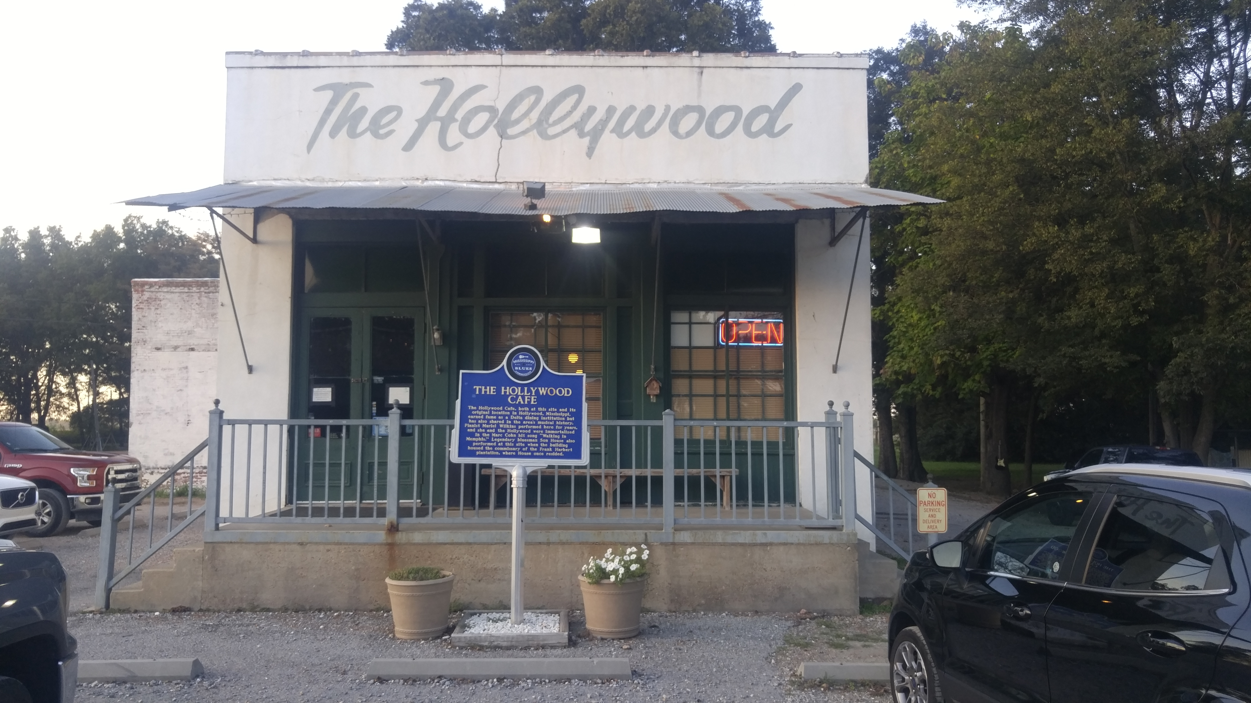 Mississippi Blues Trail marker located in downtown Robinsonville just off Old Highway 61